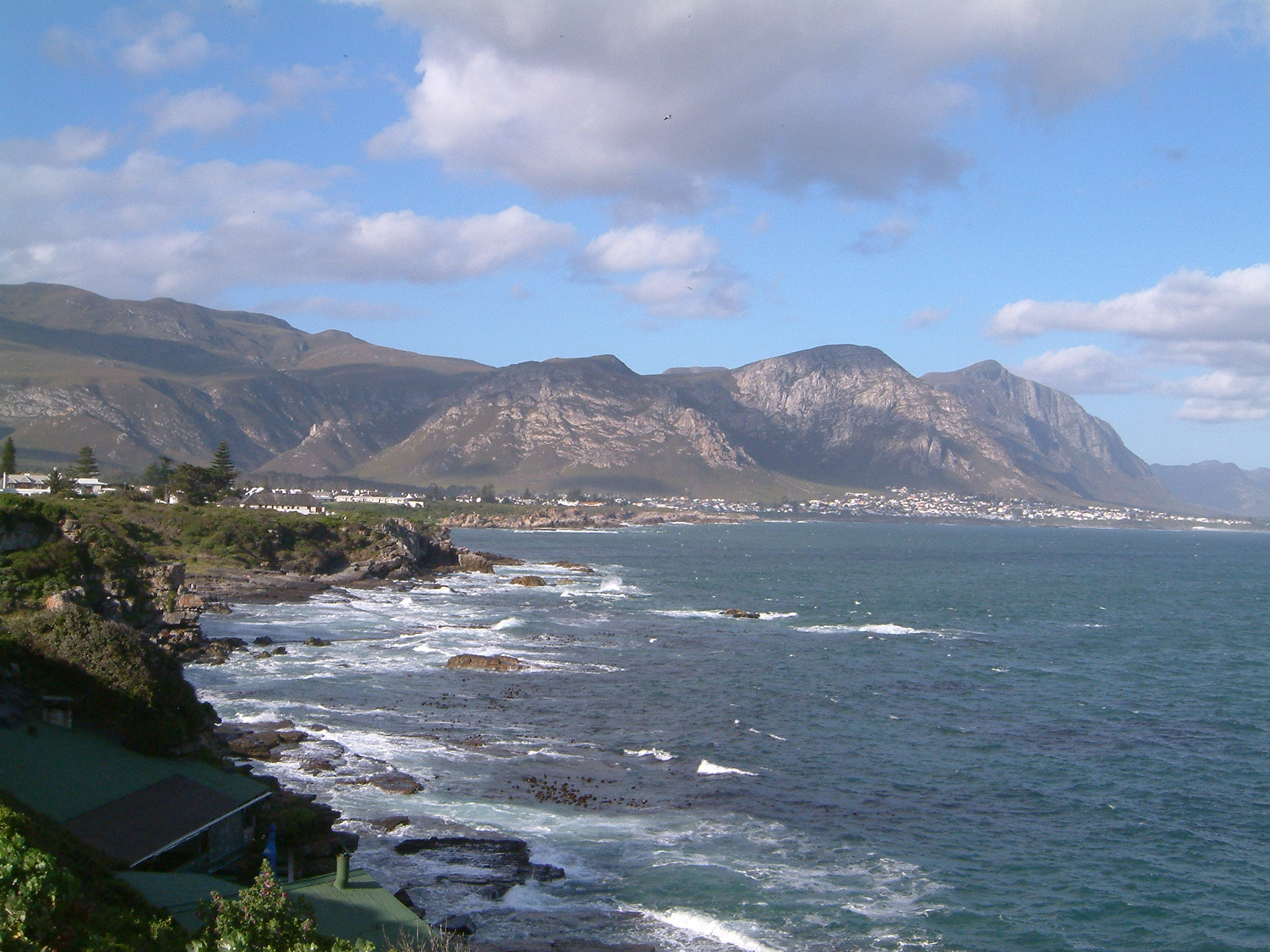 Coast near Hermanus, South Afrika